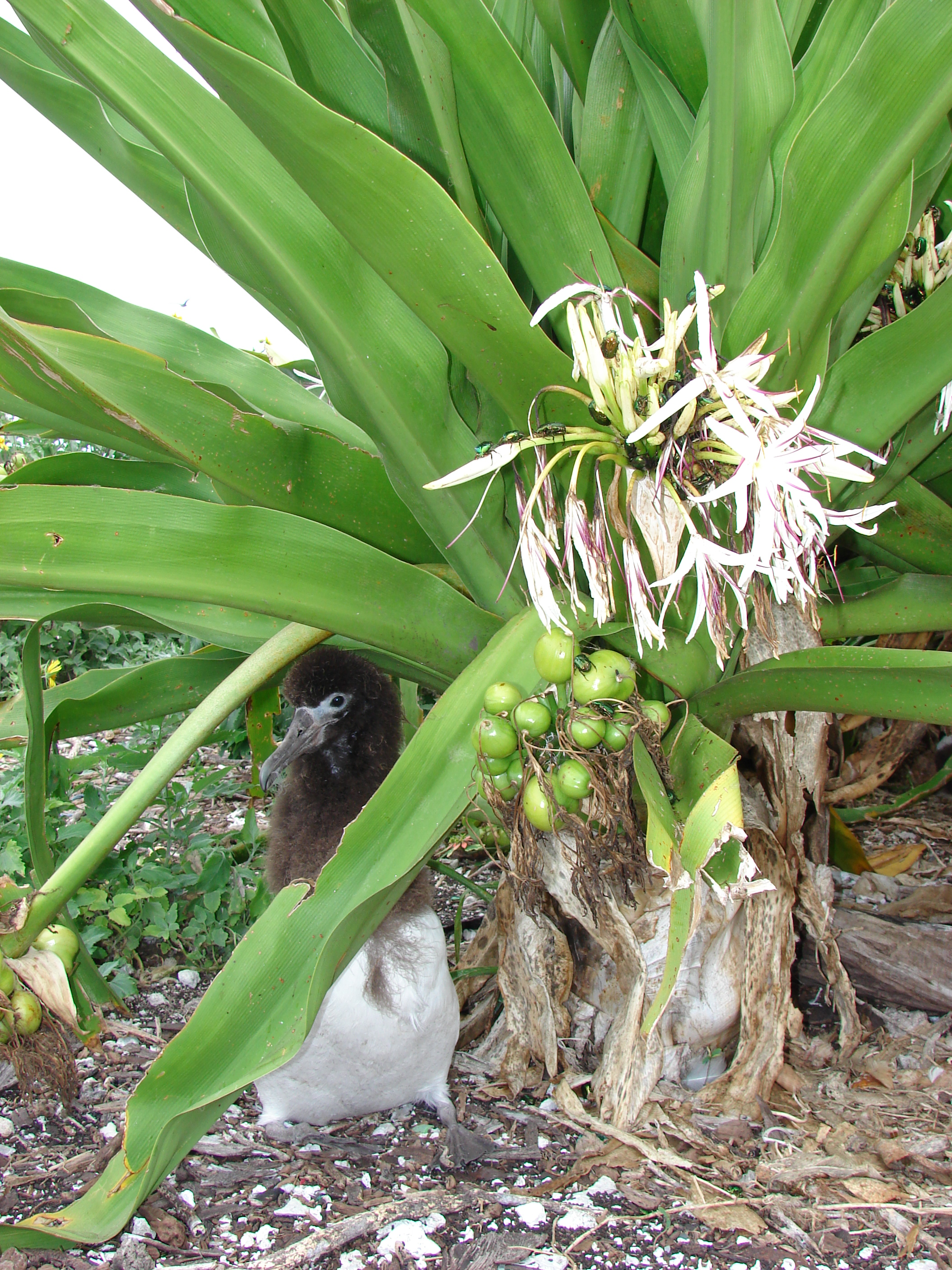 Crinum asiaticum (flowering habit with Laysan albatross chick and emerald beetles). Location: Midway Atoll, Eastern Island